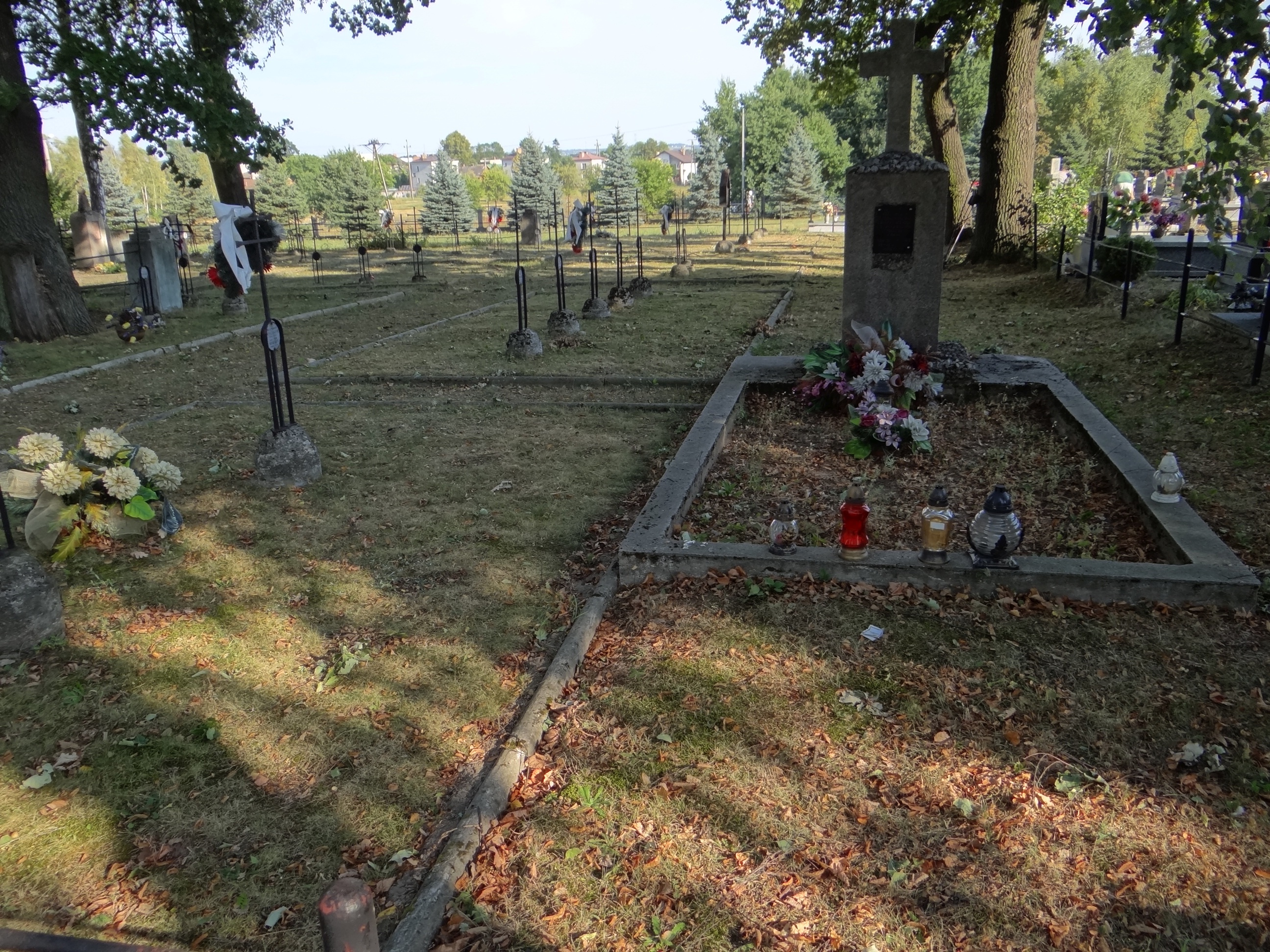 World War I Cemetery nr 253 in Żabno